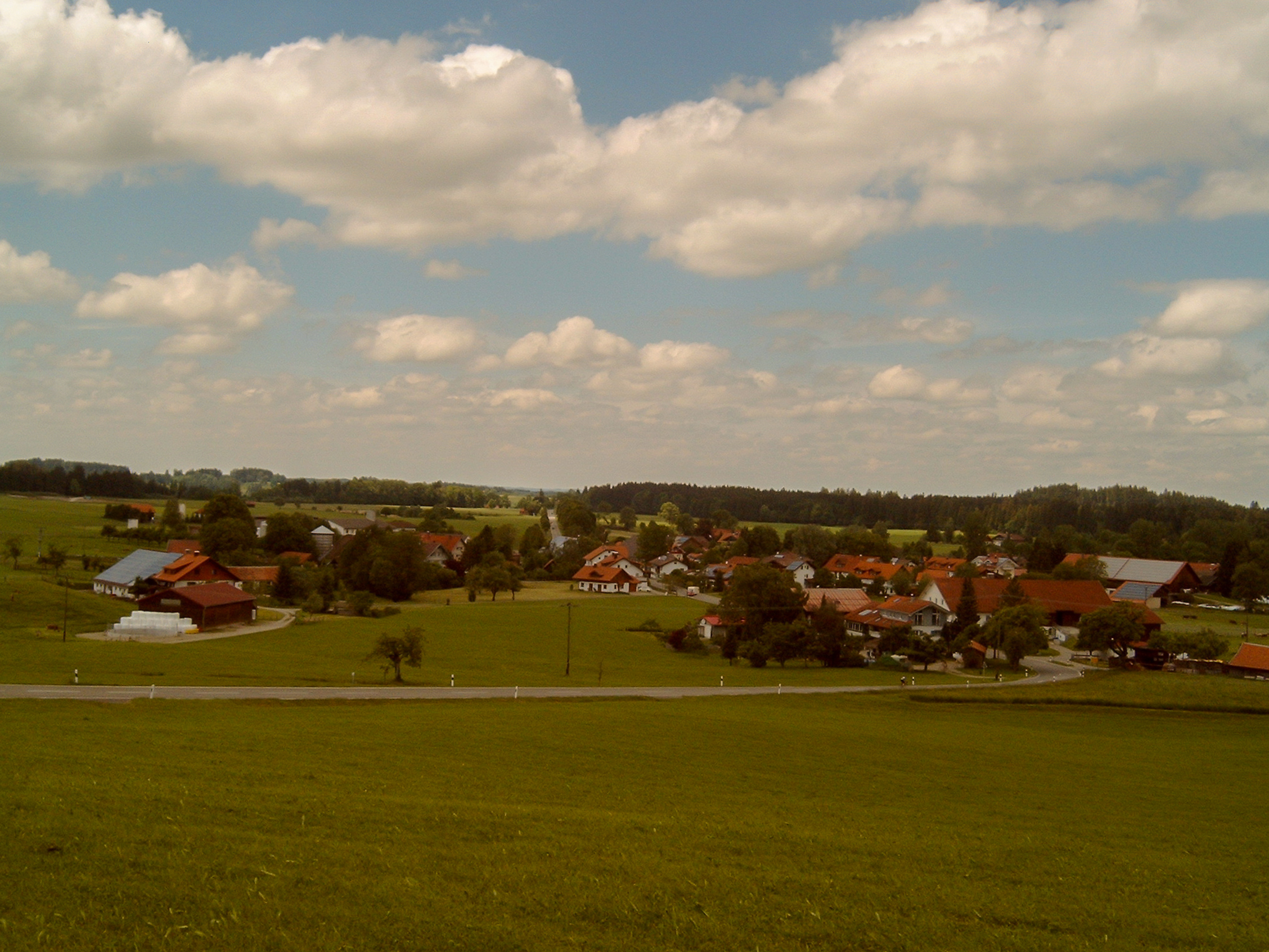 Schönau, view to the village